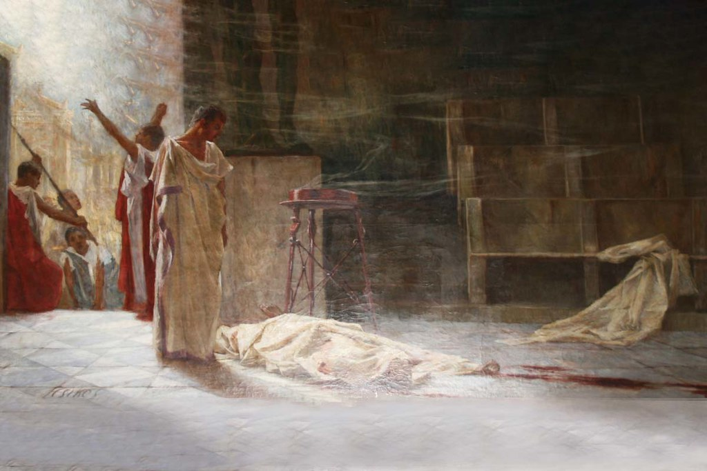 Mark Antony looking at Caesar's dead body